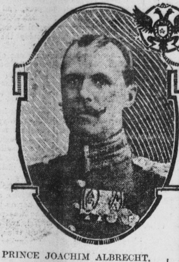 Prince Joachim Albert of Prussia, of the House of Hohenzollern